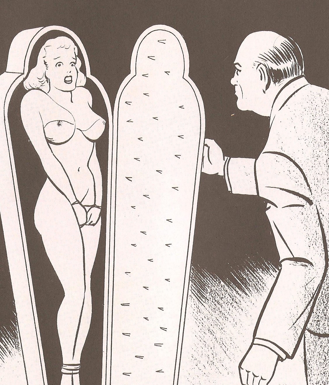 S/M image of lookalike Superman and Lois Lane drawn by the original creator during dispute with employer